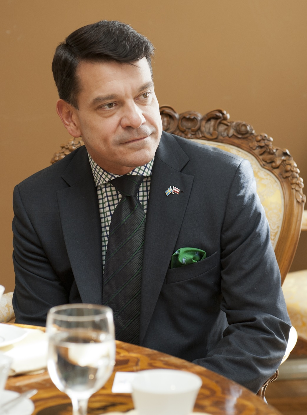 Swedish Ambassador to Lativa, Henrik Landerholm, meets the Speaker of the Saeima (The Latvian Parliament), Solvita Āboltiņa in Riga.